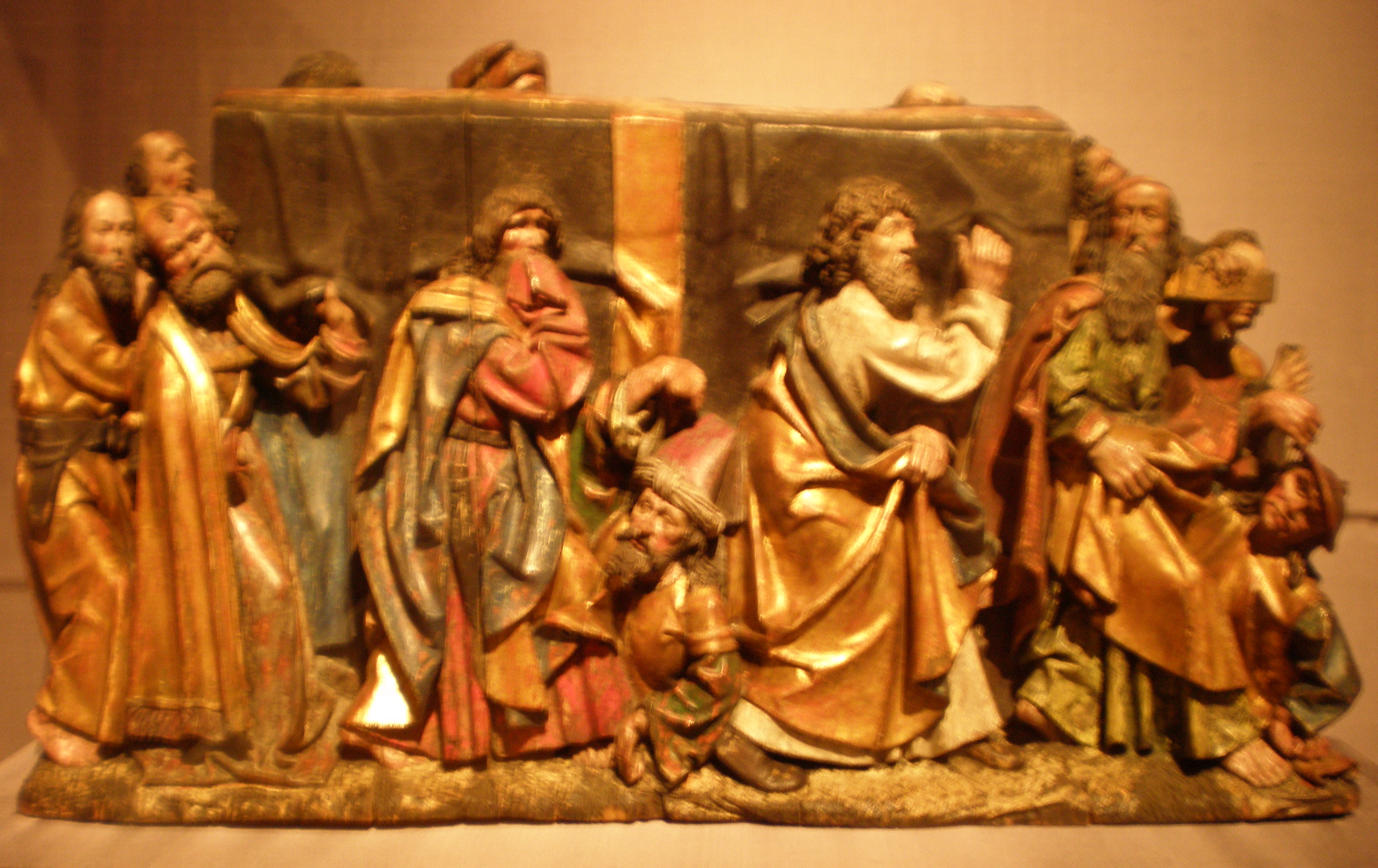 "Burial of the Virgin", by a follower of Erasmus Grasser, wood, ca. 1500, from Munich, Germany on display at the California Palace of the Legion of Honor in San Francisco. 48.9